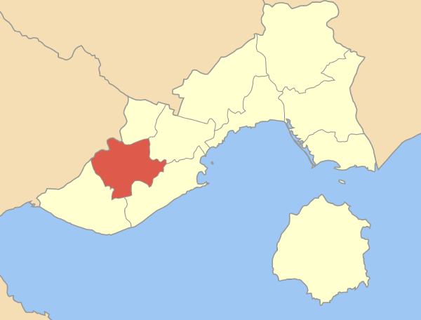 Locator map of Pieris municipality (Δήμος Πιερέων) in Kavala prefecture (Νομός Καβάλας) in Greece.